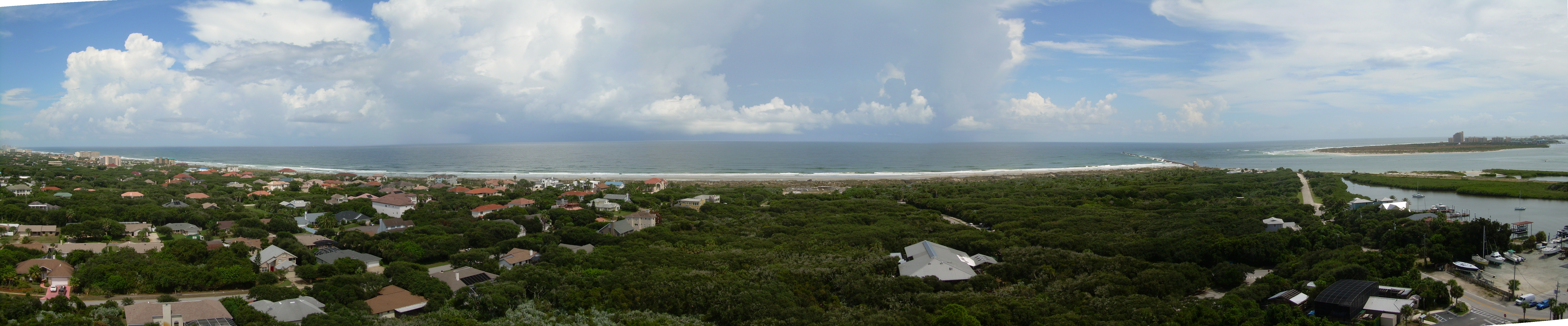 Panoramic view from the top of the Ponce Inlet Lighthouse at Ponce Inlet, Florida.